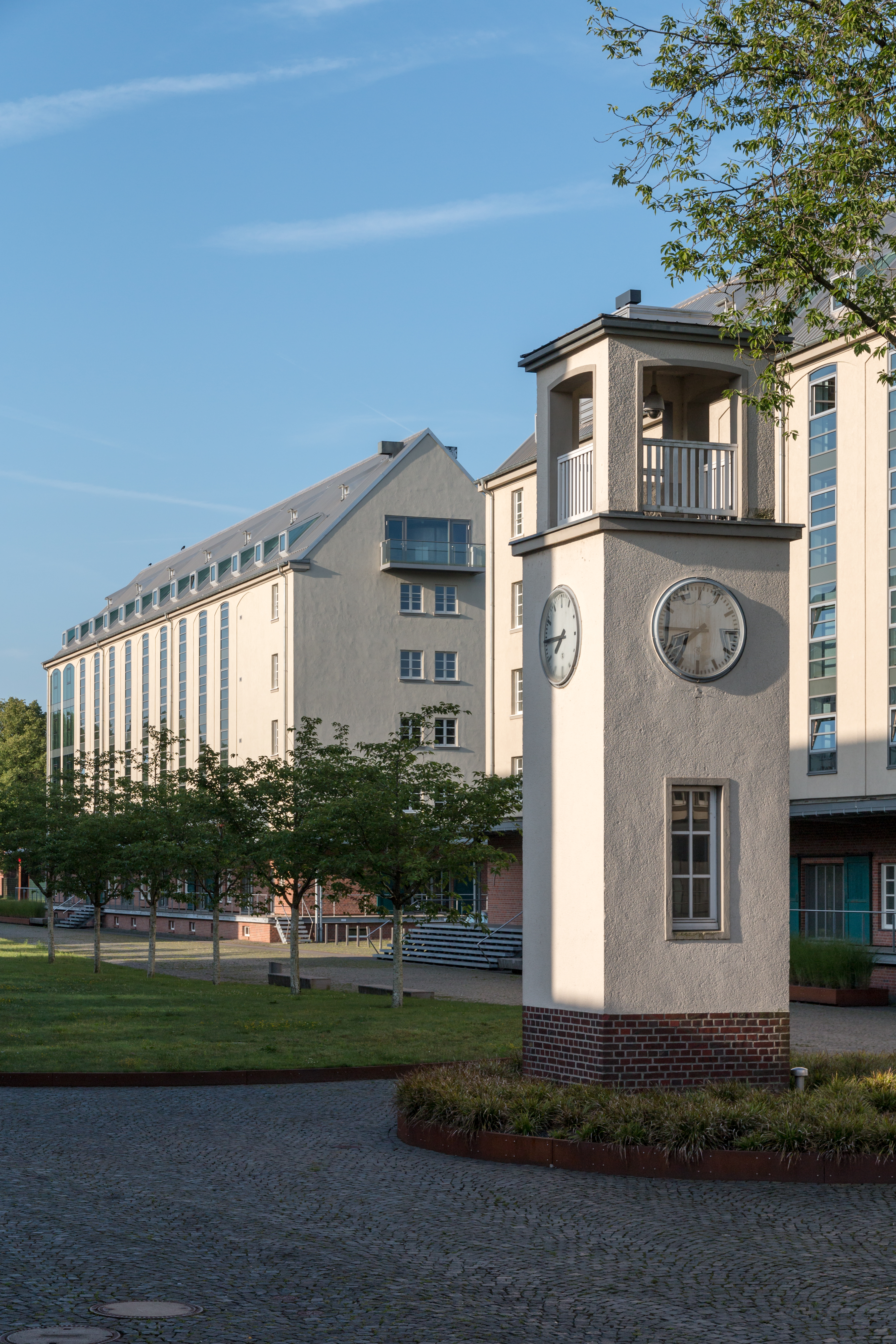 Speicherstadt, Münster, North Rhine-Westphalia, Germany This image shows a heritage building in Germany, located in the North Rhine-Westphalian city Münster.